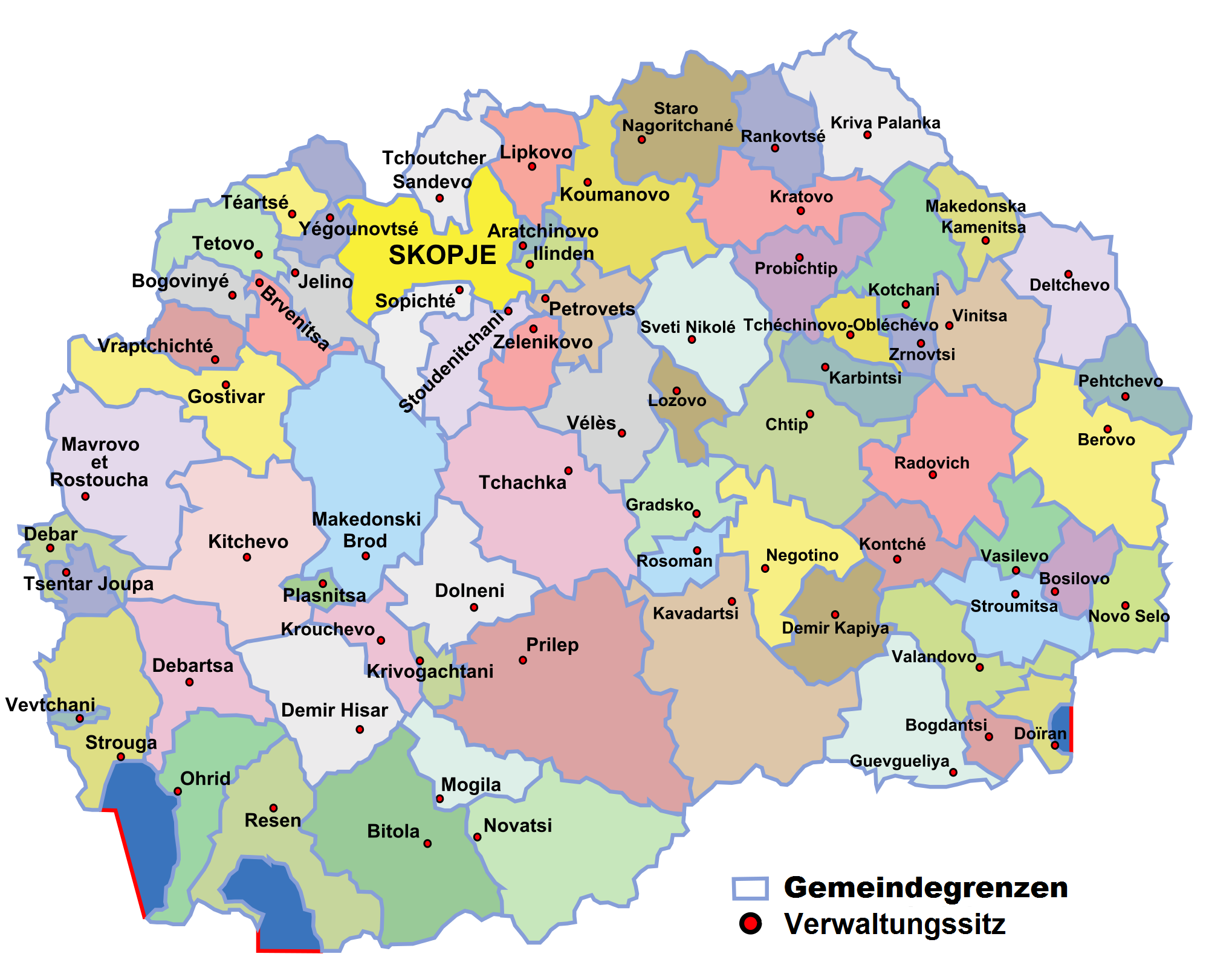 Map of the municipalities of the Republic of Macedonia, in German. Based on File:Municipalités de la République de Macédoine.svg